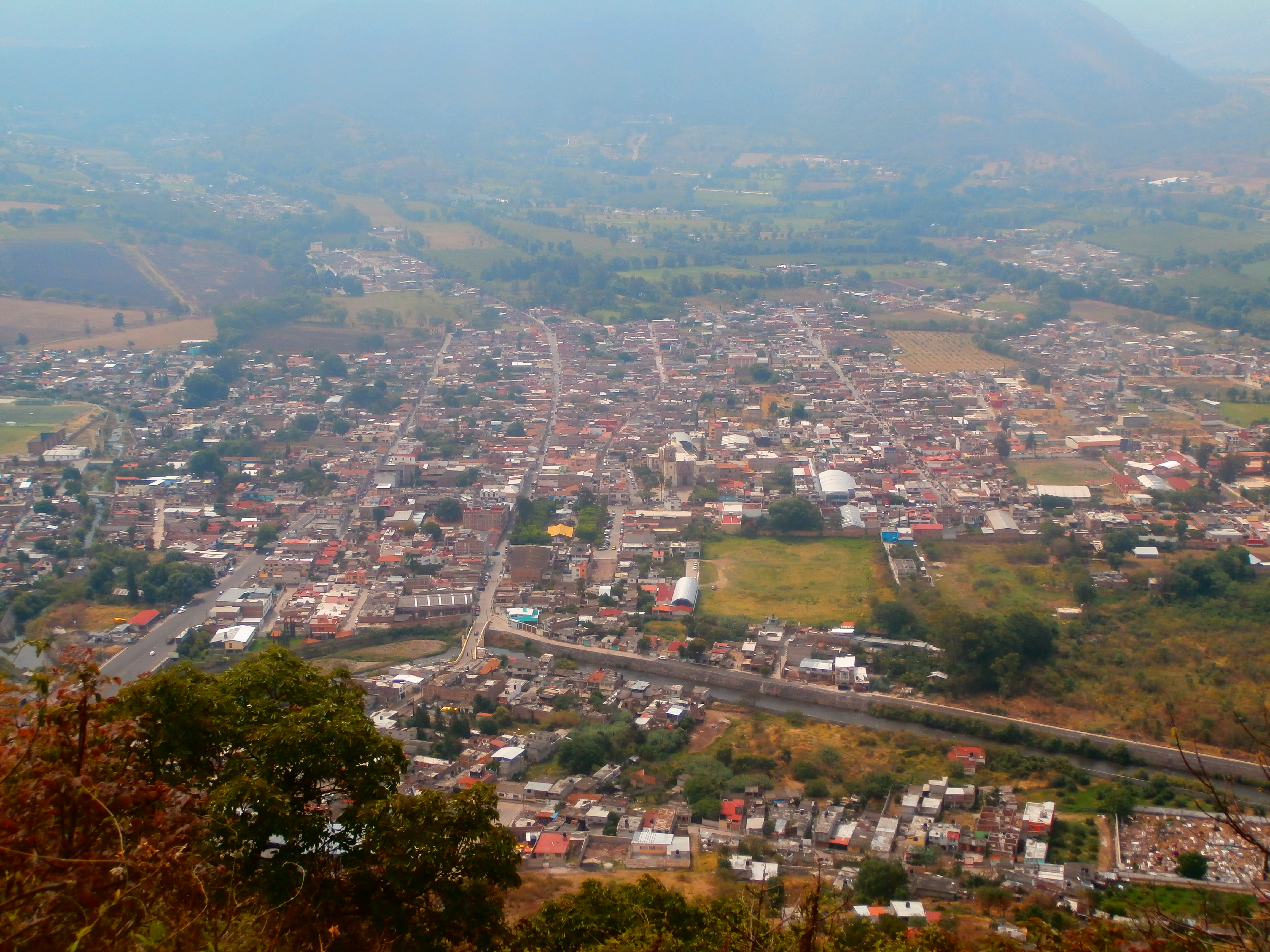 View to the city of Tuxpan, Michoacán from the Cerro del mirador